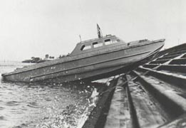 LCPL (Landing Craft Personnel (Large)) on a seawall.